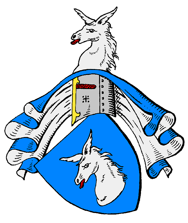 Coat of arms of the Zeppelin family